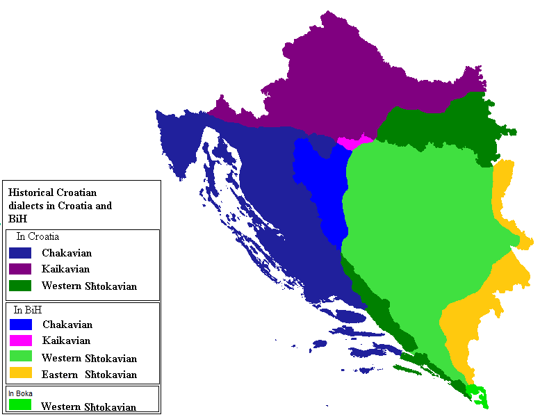 Borders of western shtokavstina in Croatia and BiH before great migrations in 16th and 17th century(areas in BiH are shown in lighter colors).